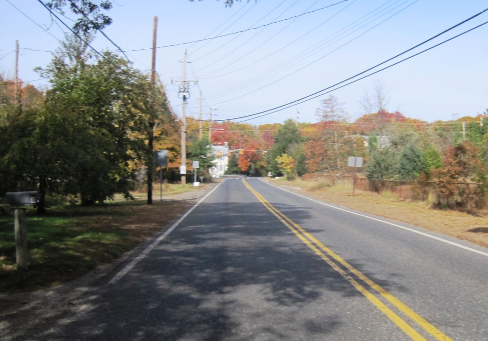 Photo of Prospertown, New Jersey, an unincorporated community within Jackson and Plumsted townships in Ocean County and Upper Freehold Township in Monmouth County. Photo taken looking north on Hawkin Road (CR 640, also through which the Jackson-Plumsted township line runs) towards its intersection with CR 537 (Monmouth Road).